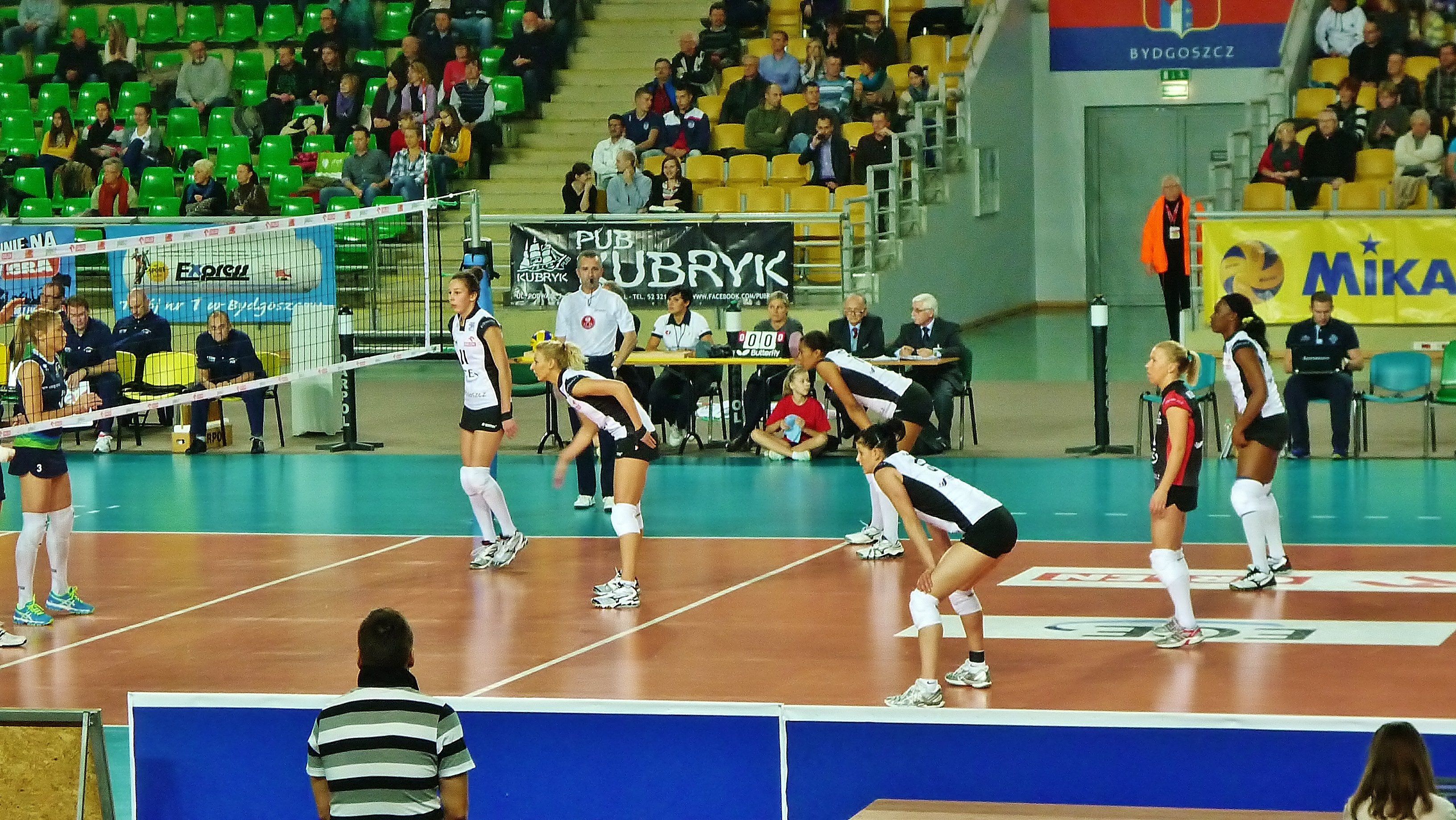 Pałac Bydgoszcz vs Atom Trefl Sopot 17-11-2012, Bydgoszcz, Poland